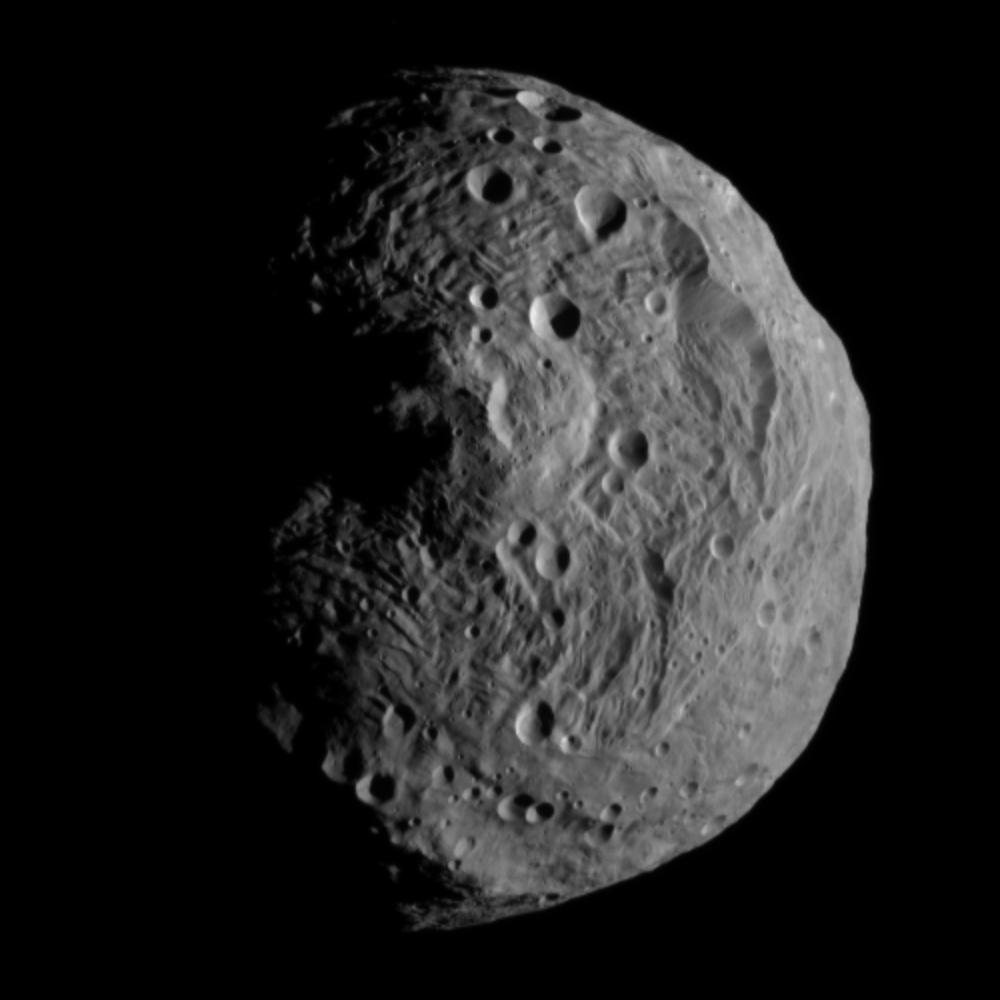 Asteroid 4 Vesta from Dawn on July 17, 2011. The image was taken from a distance of 9,500 miles (15,000 km) away from Vesta.